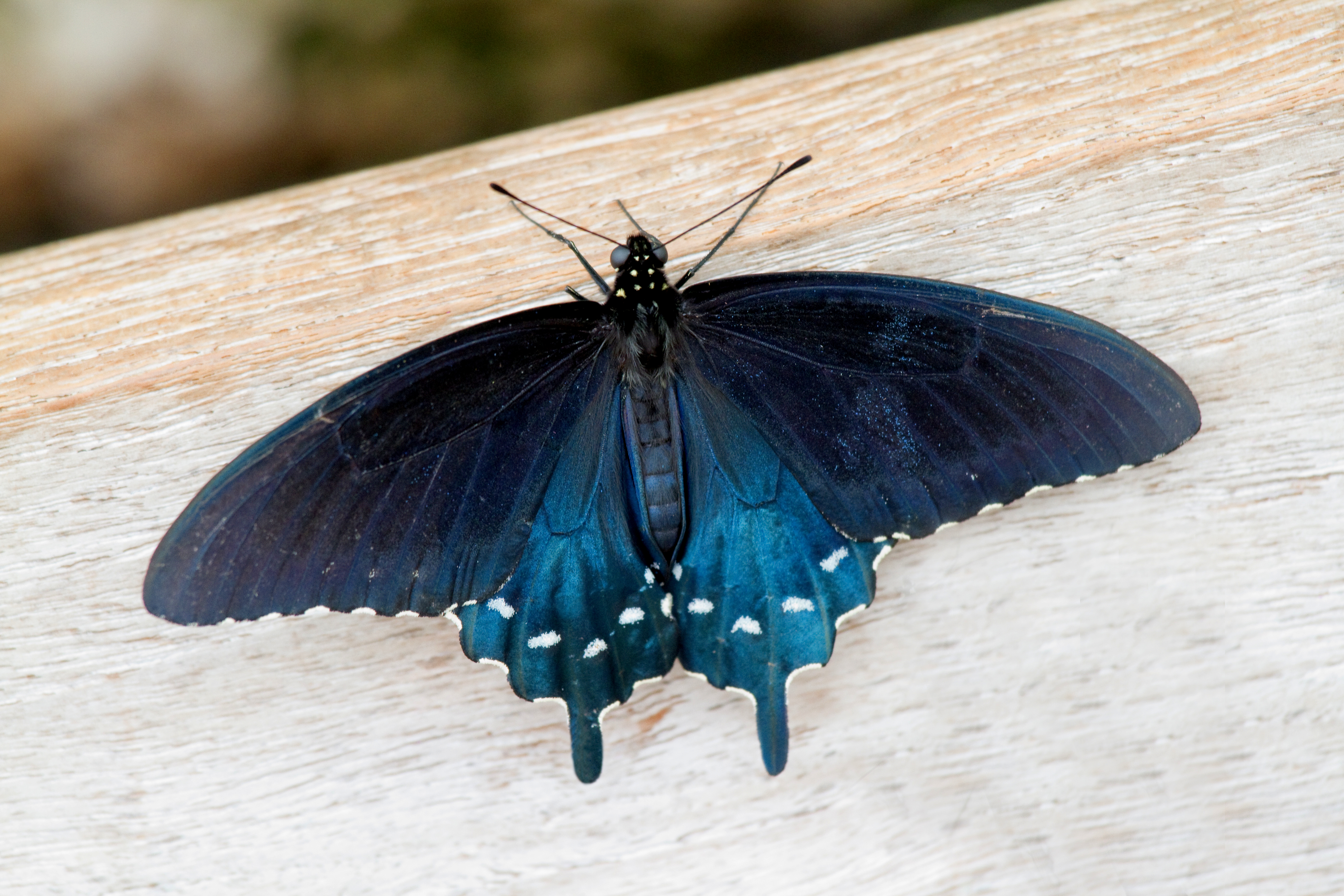 Pipevine butterfly - Battus philenor - dorsal view.